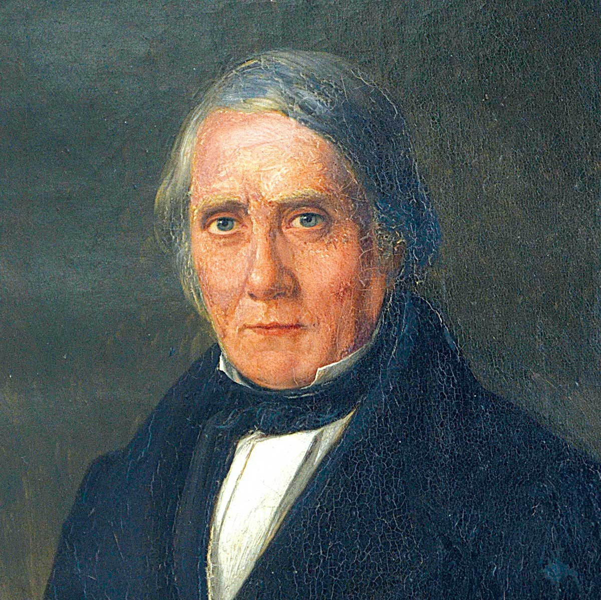 Jürgen Marcussen, Danish organ builder